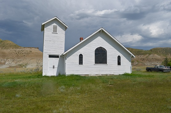 The United Church of Dorothy, Alberta. An image of the church exists on Wikipedia, but it is of the church before restoration, and the restored church is very much different than the pre-restoration church.